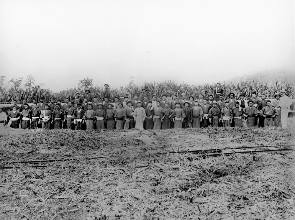 Japanese workers on Hambledon Sugar Plantation, Cairns, ca. 1896 Large group of Japanese migrant labourers on the Hambledon Sugar Plantation at Cairns, Queensland, around 1896. Nearly all of the men are wearing traditional Japanese dress.